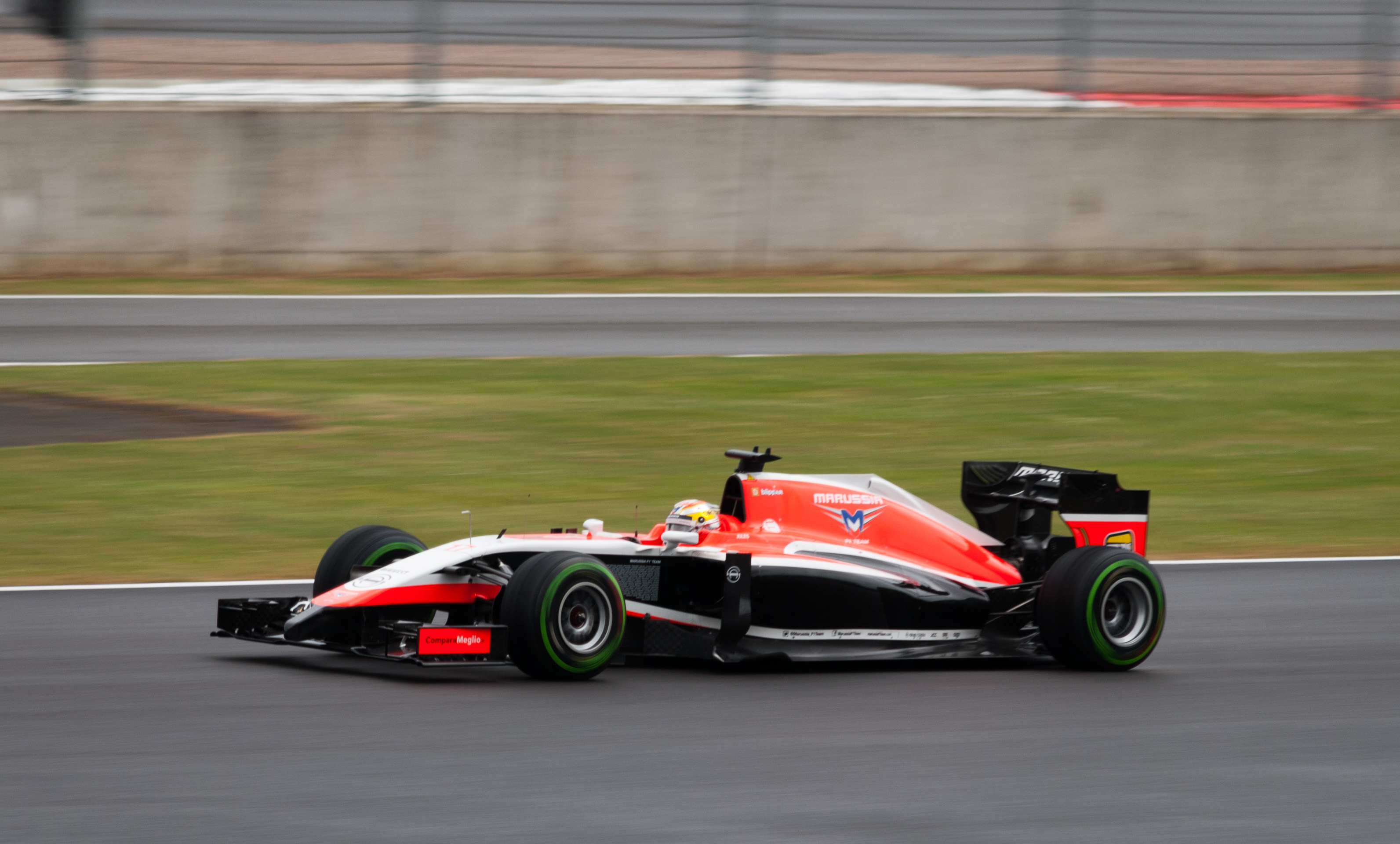 Jules Bianchi's Marussia MR03 at the 2014 British GP